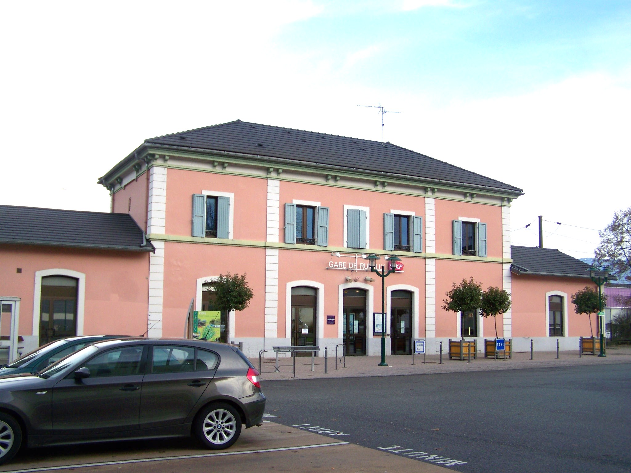 Facade of Rumilly railway station, in Haute-Savoie, France.